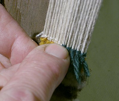 carpet knotting